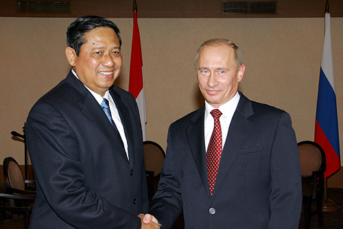 BUSAN. Meeting with the President of Indonesia, Susilo Bambang Yudhoyono.